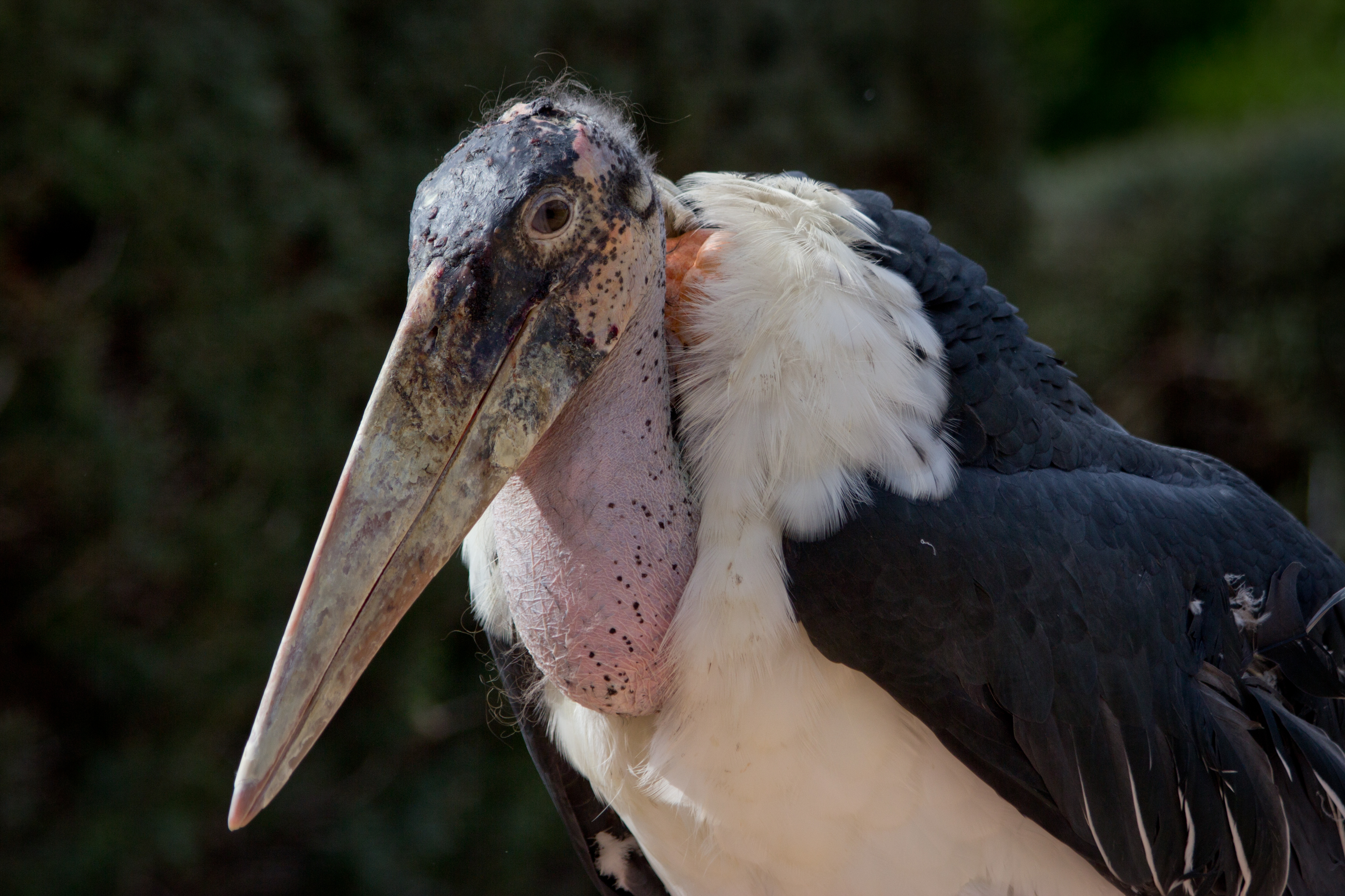 Marabou Stork (Leptoptilos crumeniferus) during a show of birds of prey at the Zoo of Madrid, Spain.